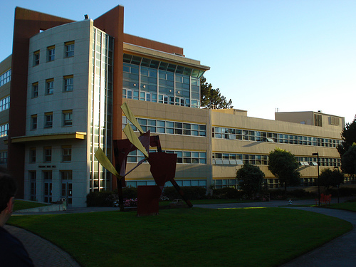 san francisco state university